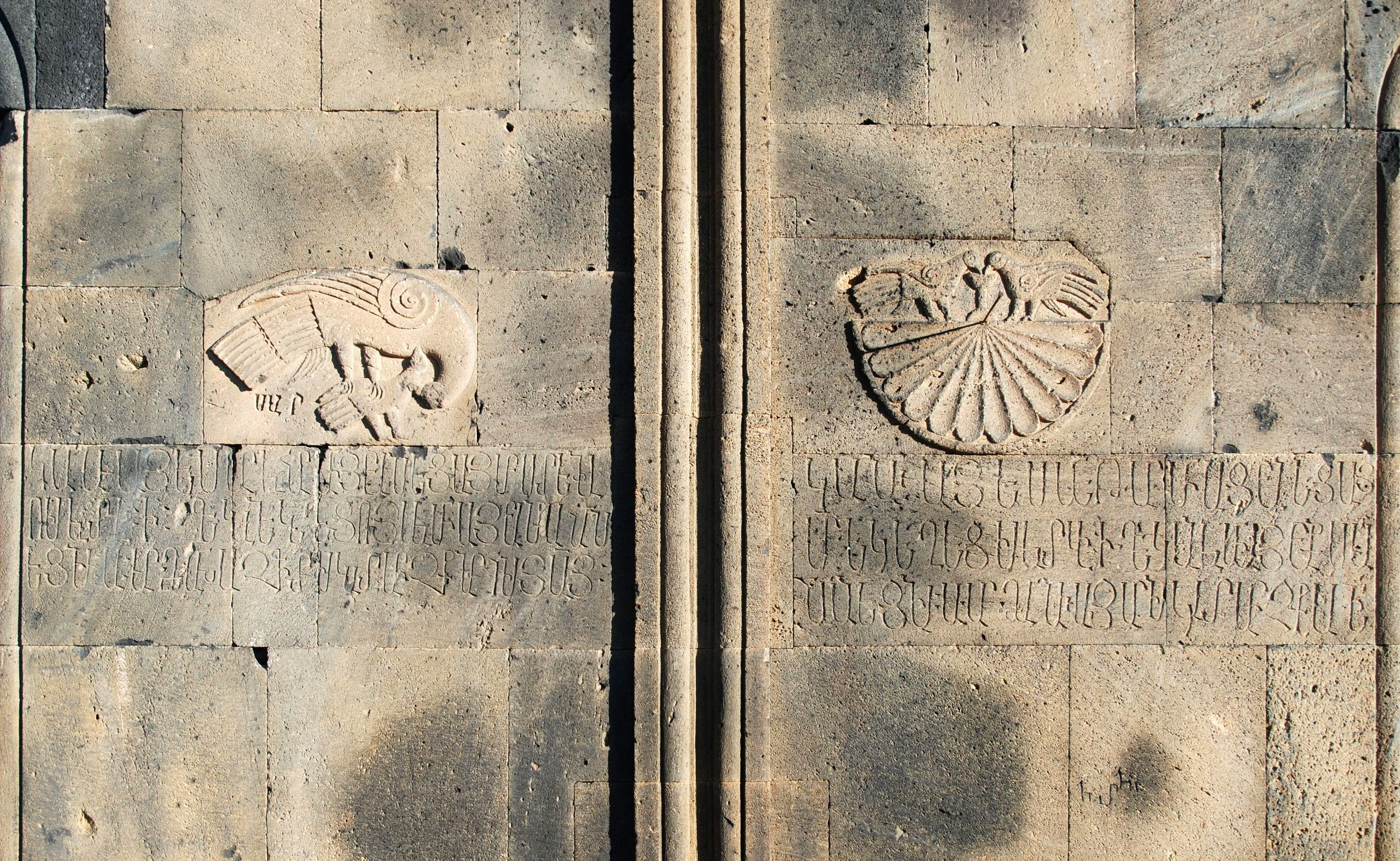 Tanahat, Surp Stepanos, south facade